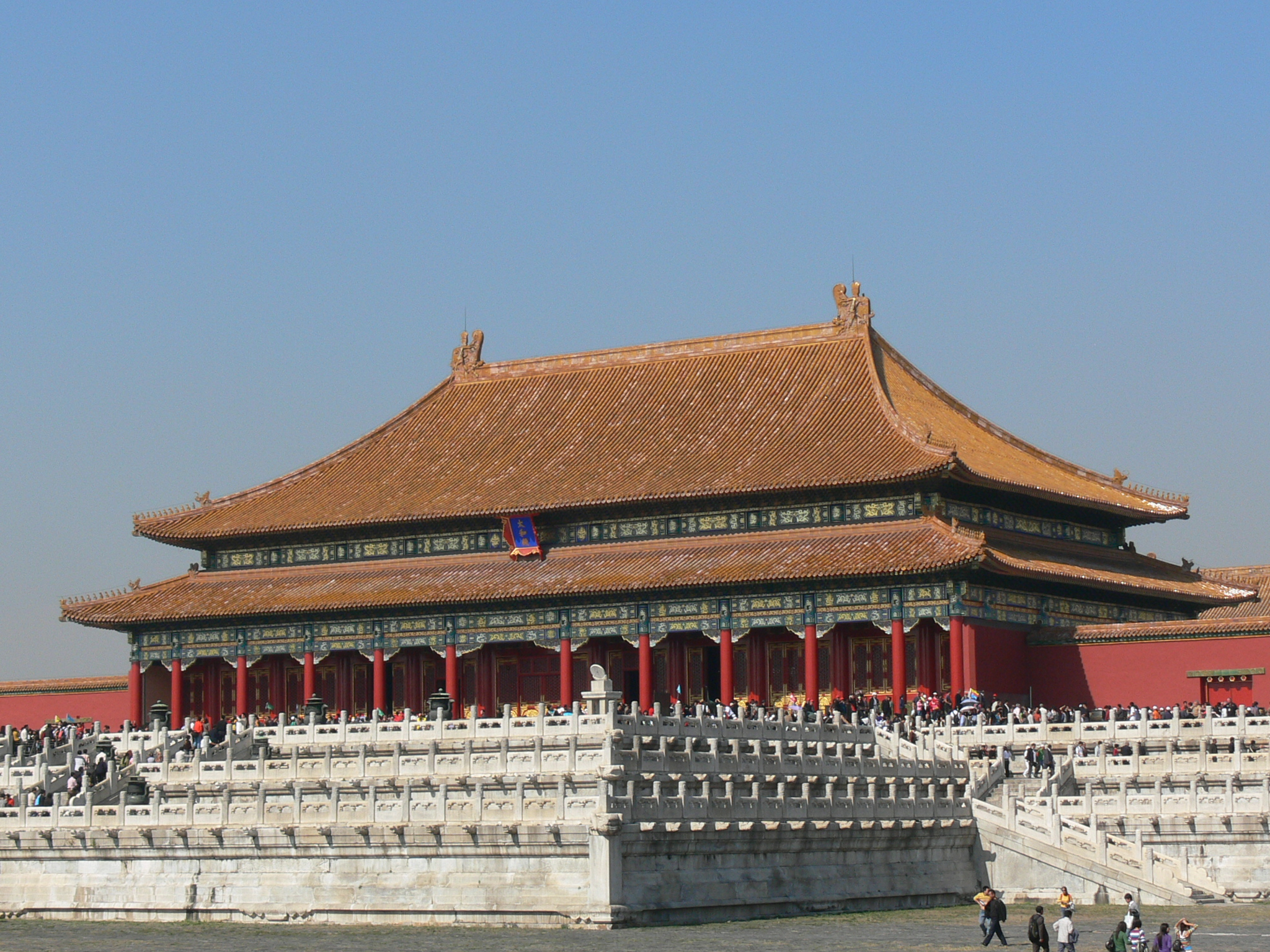 The Hall of Supreme Harmony